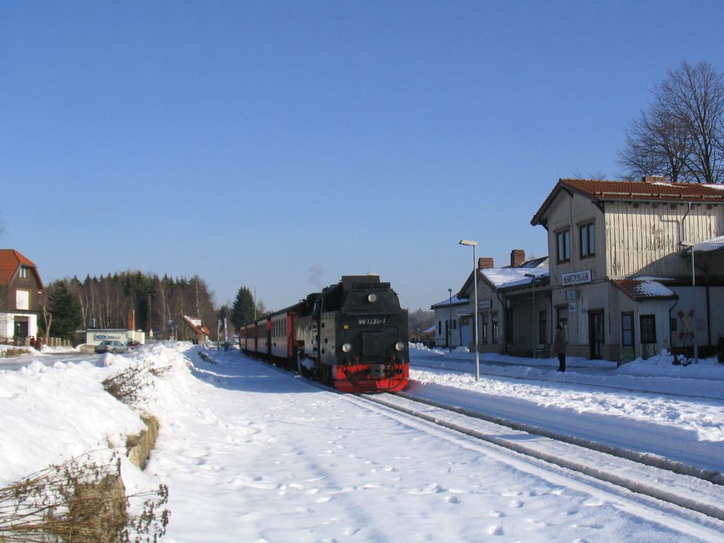 Station of railway Harzer Schmalspurbahnen in Benneckenstein.